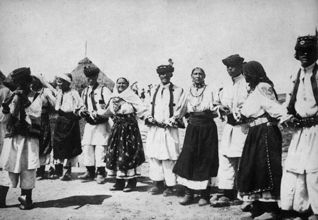 Romanian barn dance at Pentecost 1905, in Muncelu Mic village